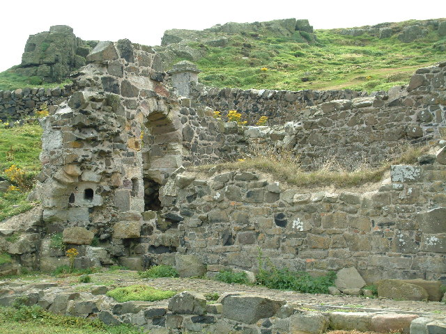 Ruins of Priory